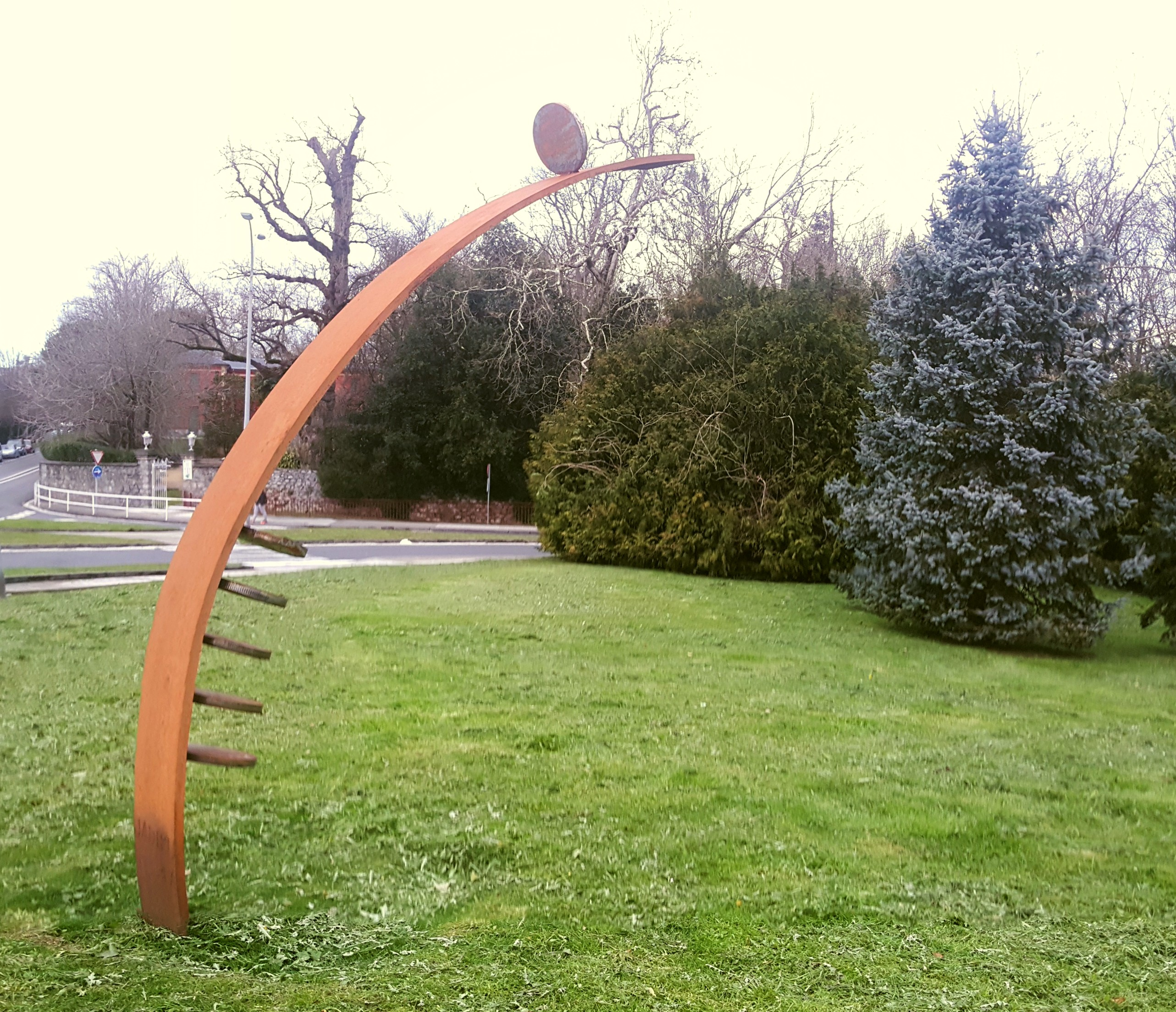 Sculpture called Toka in the Aiete neighbourhood of Donostia-San Sebastian in homage to Manuel Matxain.